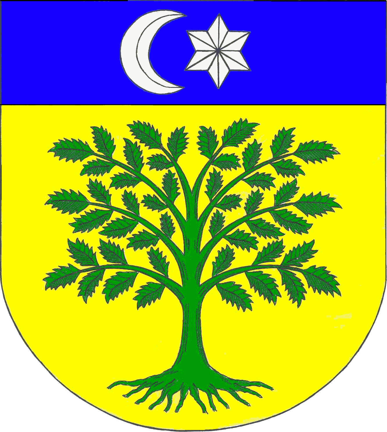 Coat of arms of the municipality Esgrus in Schleswig-Holstein, Germany.